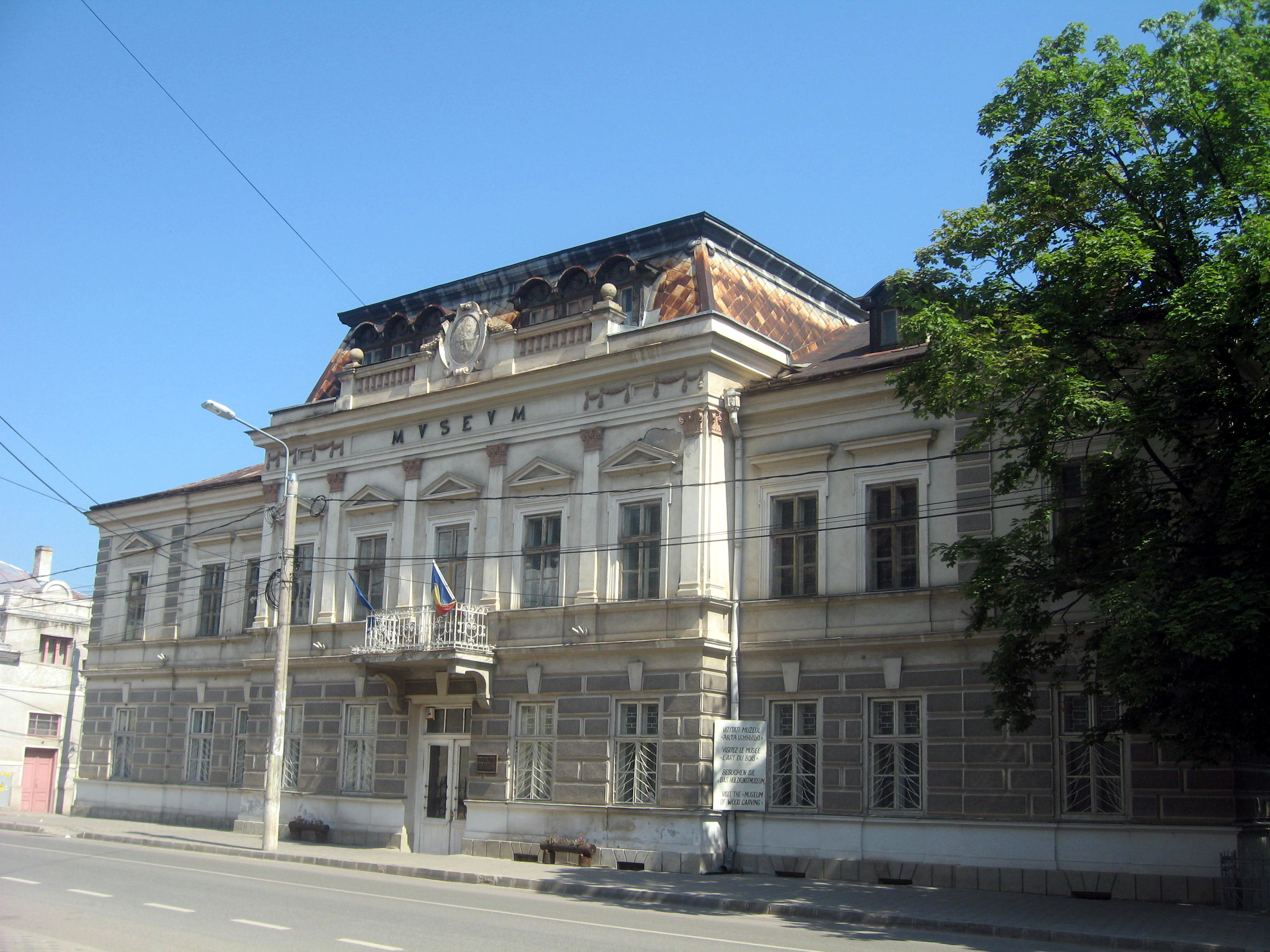 The Wood Museum in Câmpulung Moldovenesc, Romania